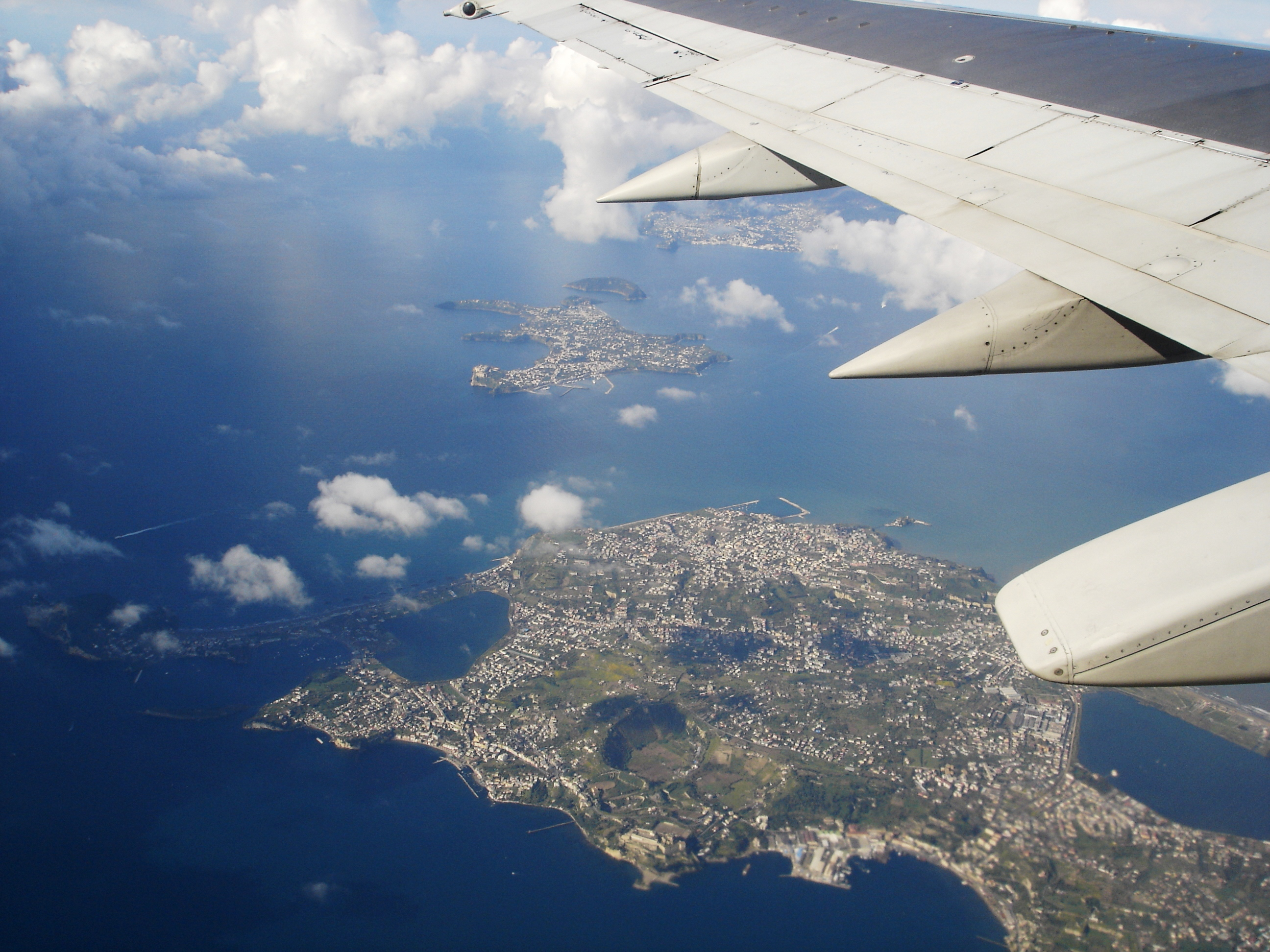 Views of Flaegrean peninsula, Procida and Vivara - photo by Luigi and utente:Retaggio